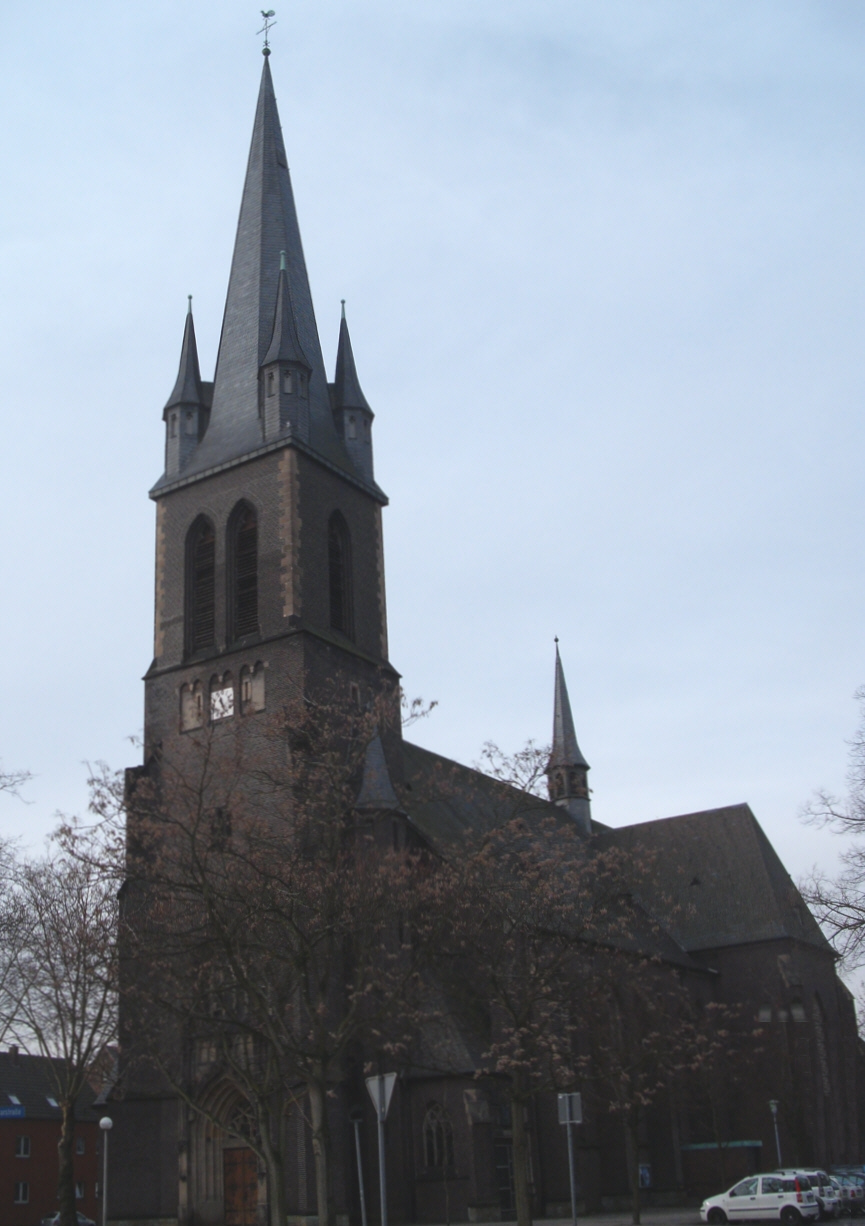 Herz Jesu Kirche in Sterkrade, rom-catholic church